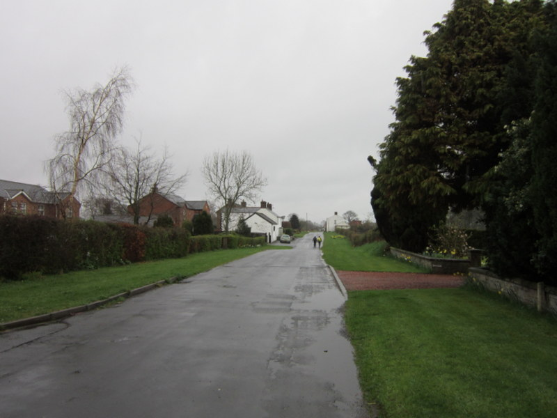 Hadrian's Wall Walk at Newtown